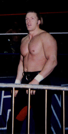 Hunter Hearst Helmsley at a WWF event in 1996